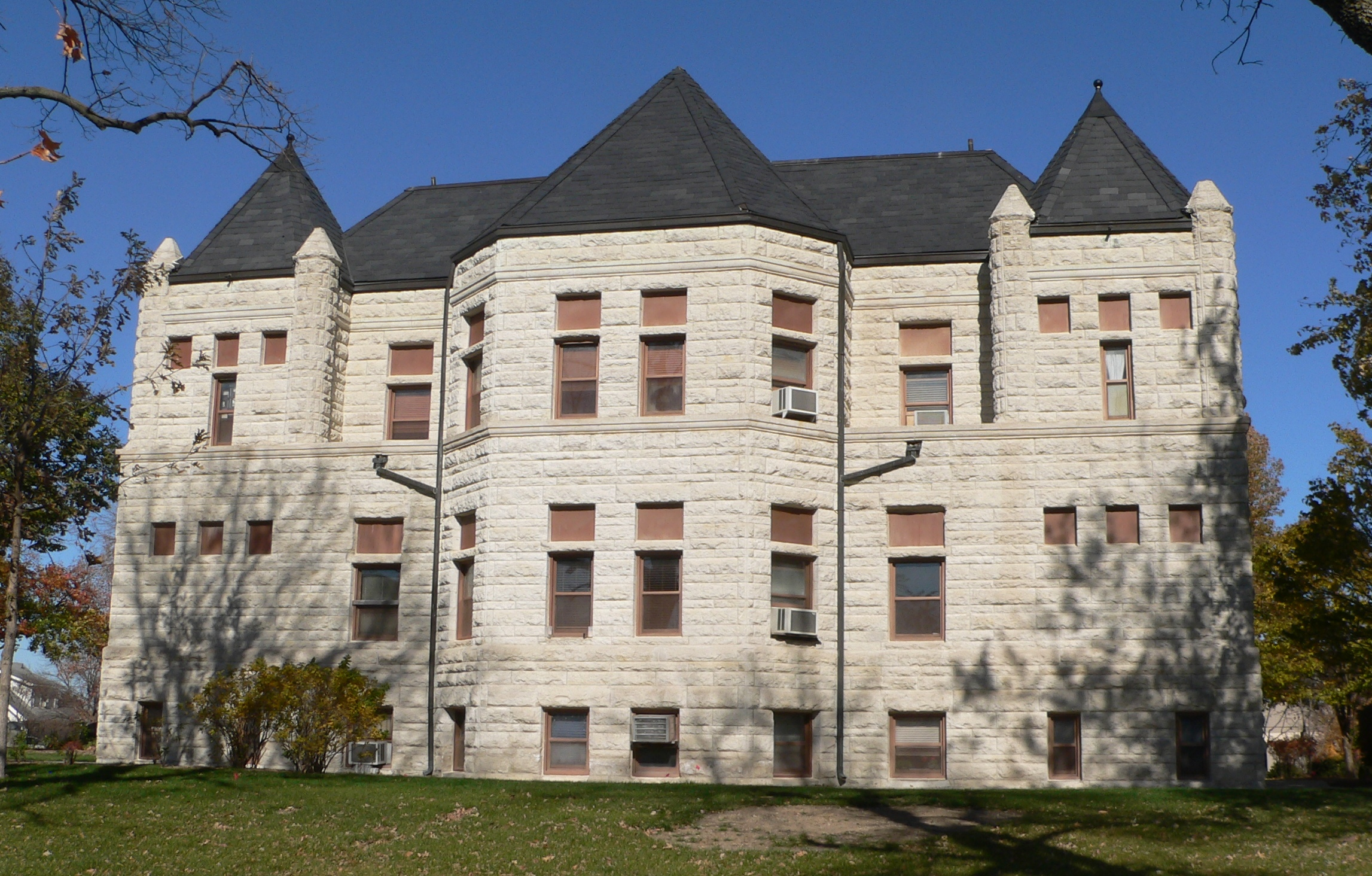 Nemaha County Courthouse in Auburn, Nebraska; seen from the south.